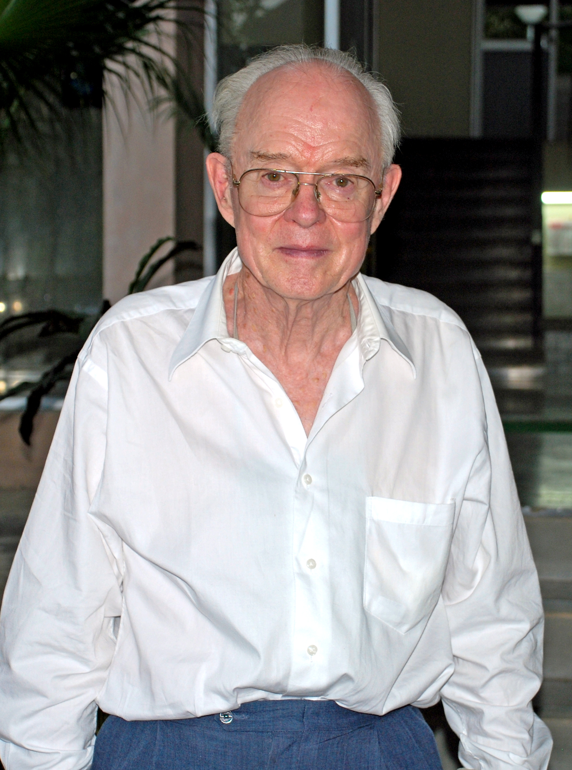 Prof. Eugene Parker from University of Chicago